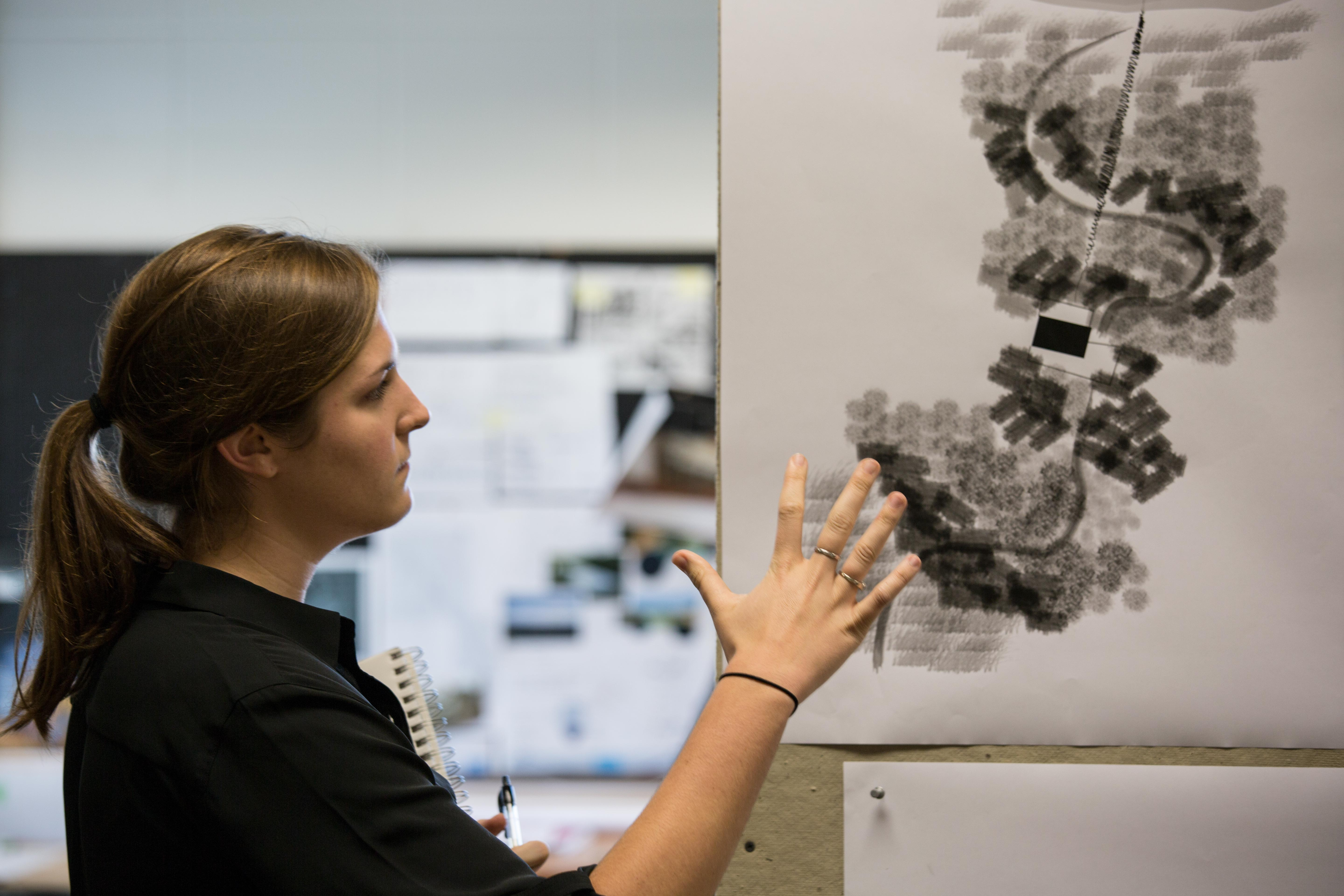 Student presenting project